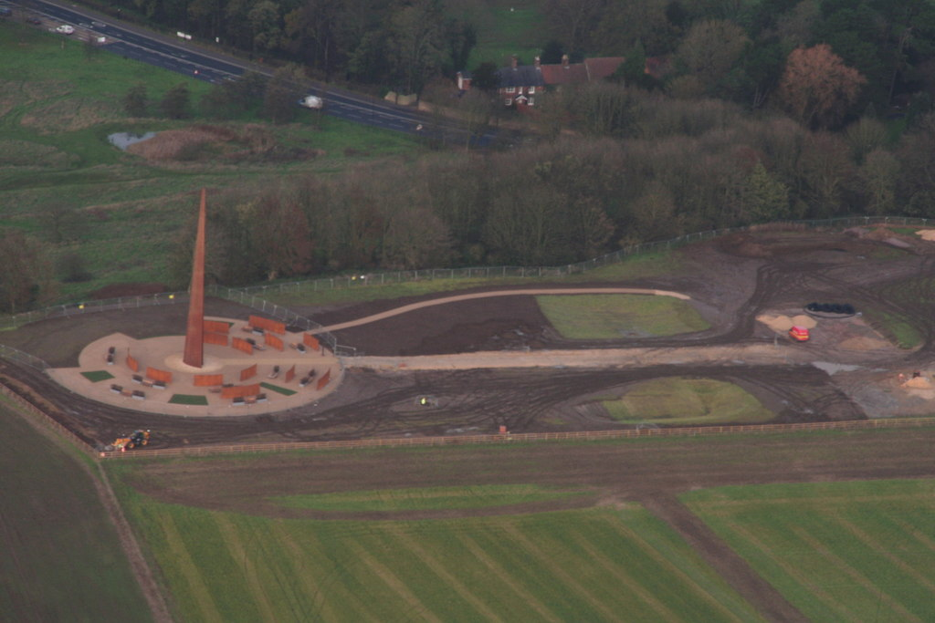 Memorial Spire at the International Bomber Command Centre: aerial 2015